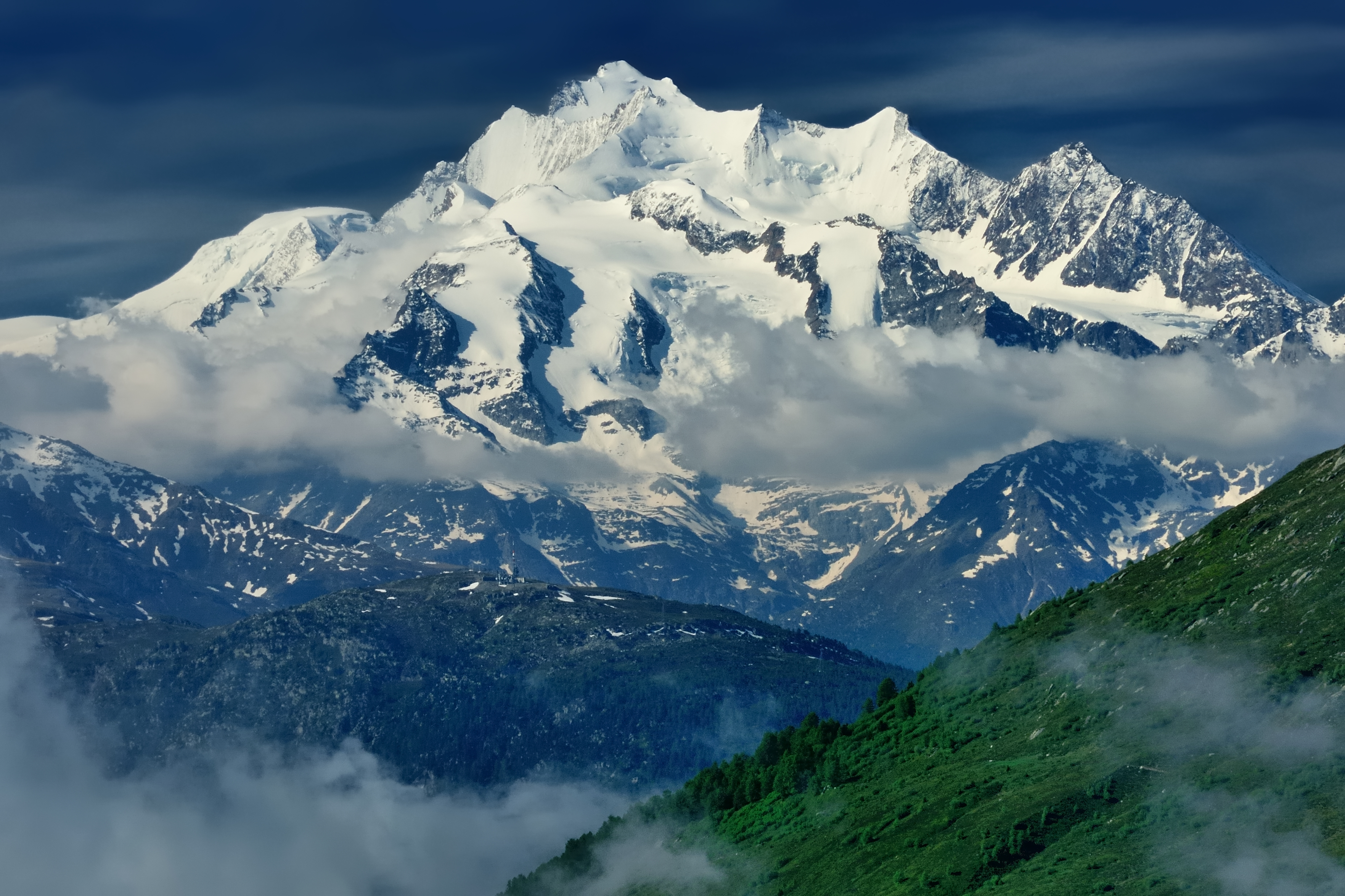 Dom of Mischabel, Naters (Belalp-Bruchegg)